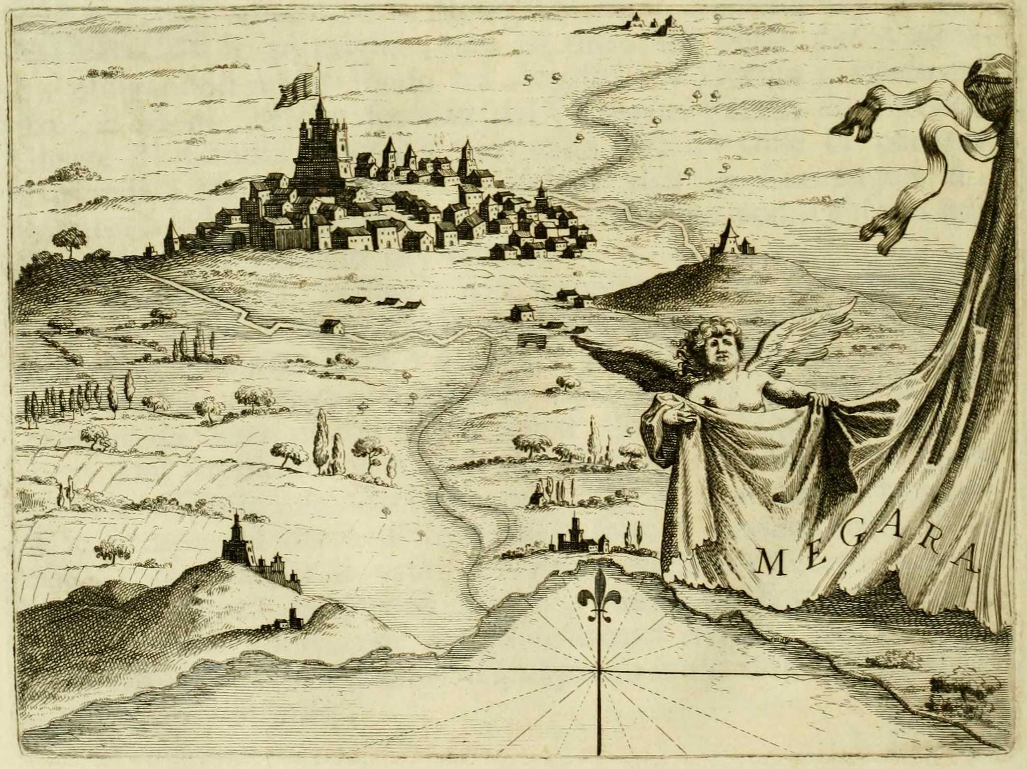 Megara city in Attica.